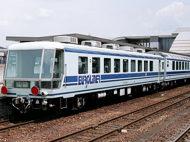 Japanese National Railways Series 12 Passenger car. Joyful Train "EuroLiner" In Mino-ota station